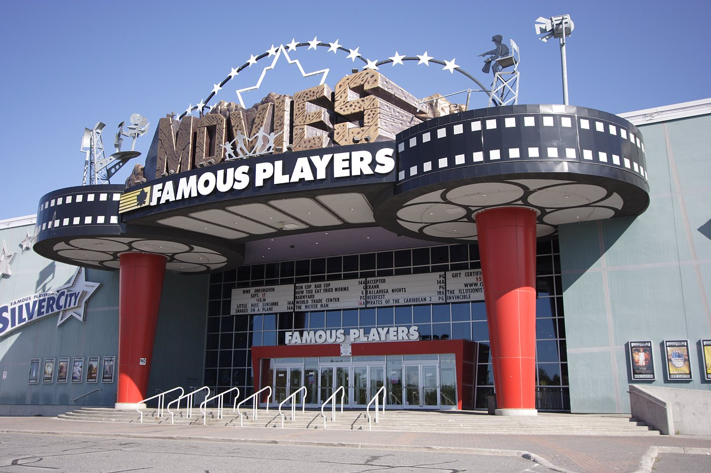 SilverCity